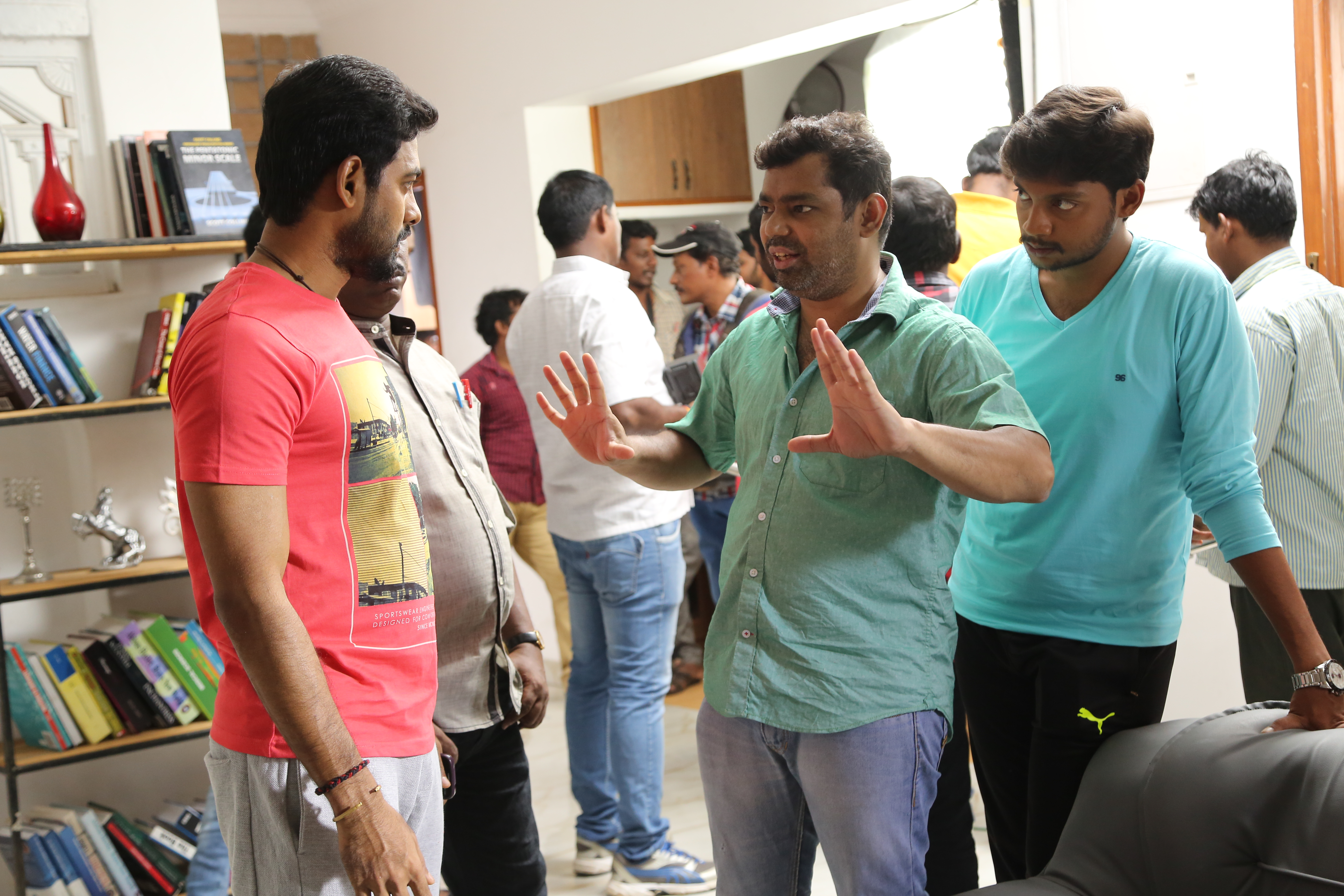 One of my clicks from tamil film Nagesh Thiraiyarangam